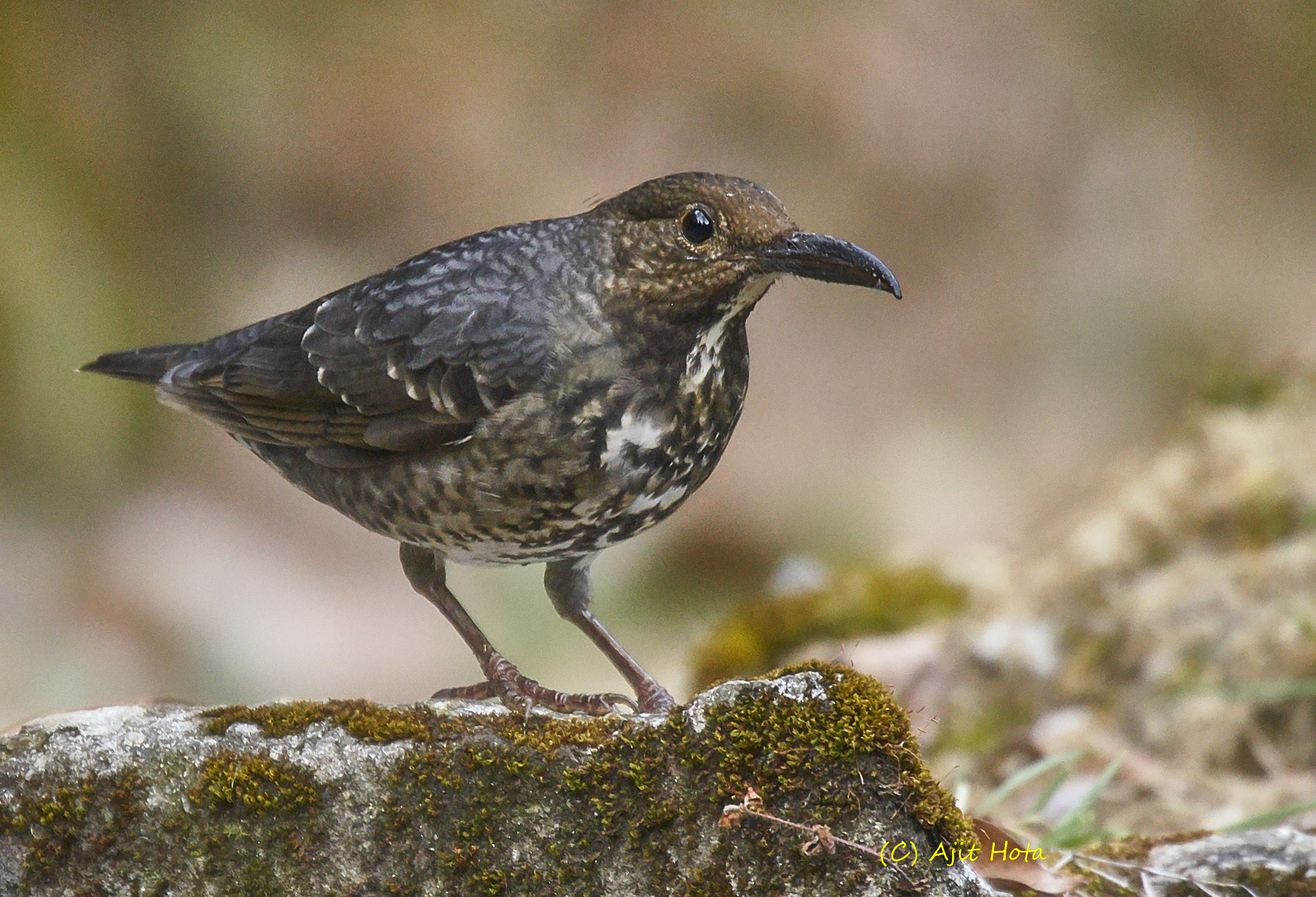 The long-billed thrush clicked at Kedarnath Musk Deer Sanctuary